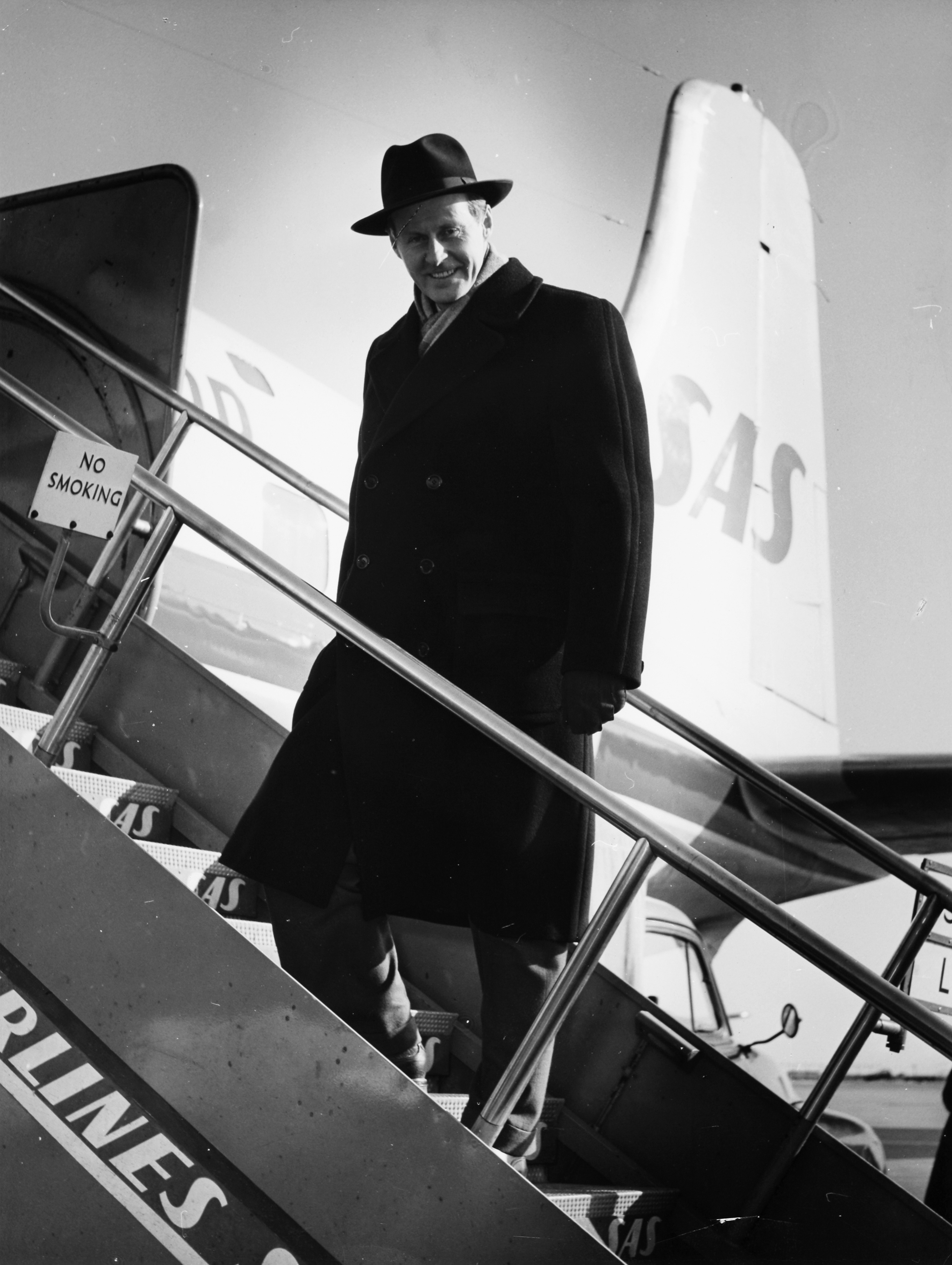 Thor Hejerdahl, author, Norway, at Kastrup Airport CPH, Copenhagen, Denmark 1958-03-06.